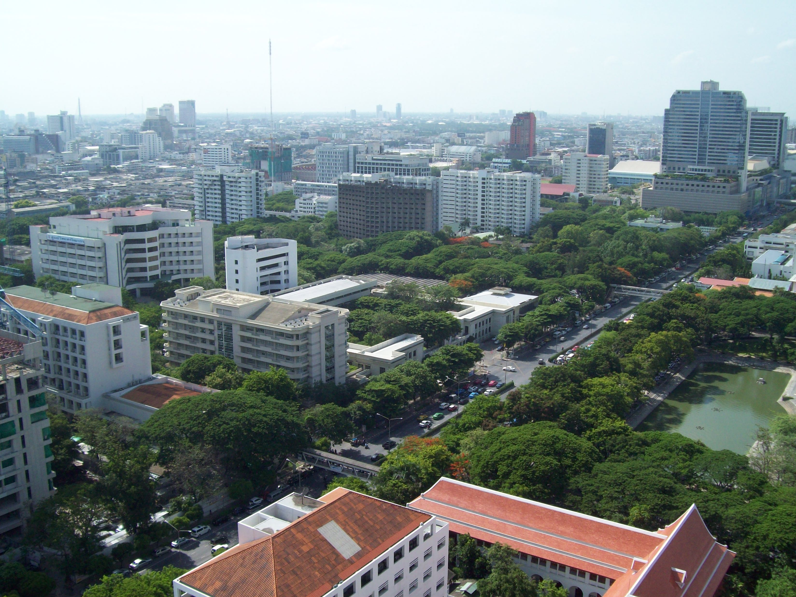 northwestern side of Chulalongkorn University. The tall brownish building and its companions are students dormitory.